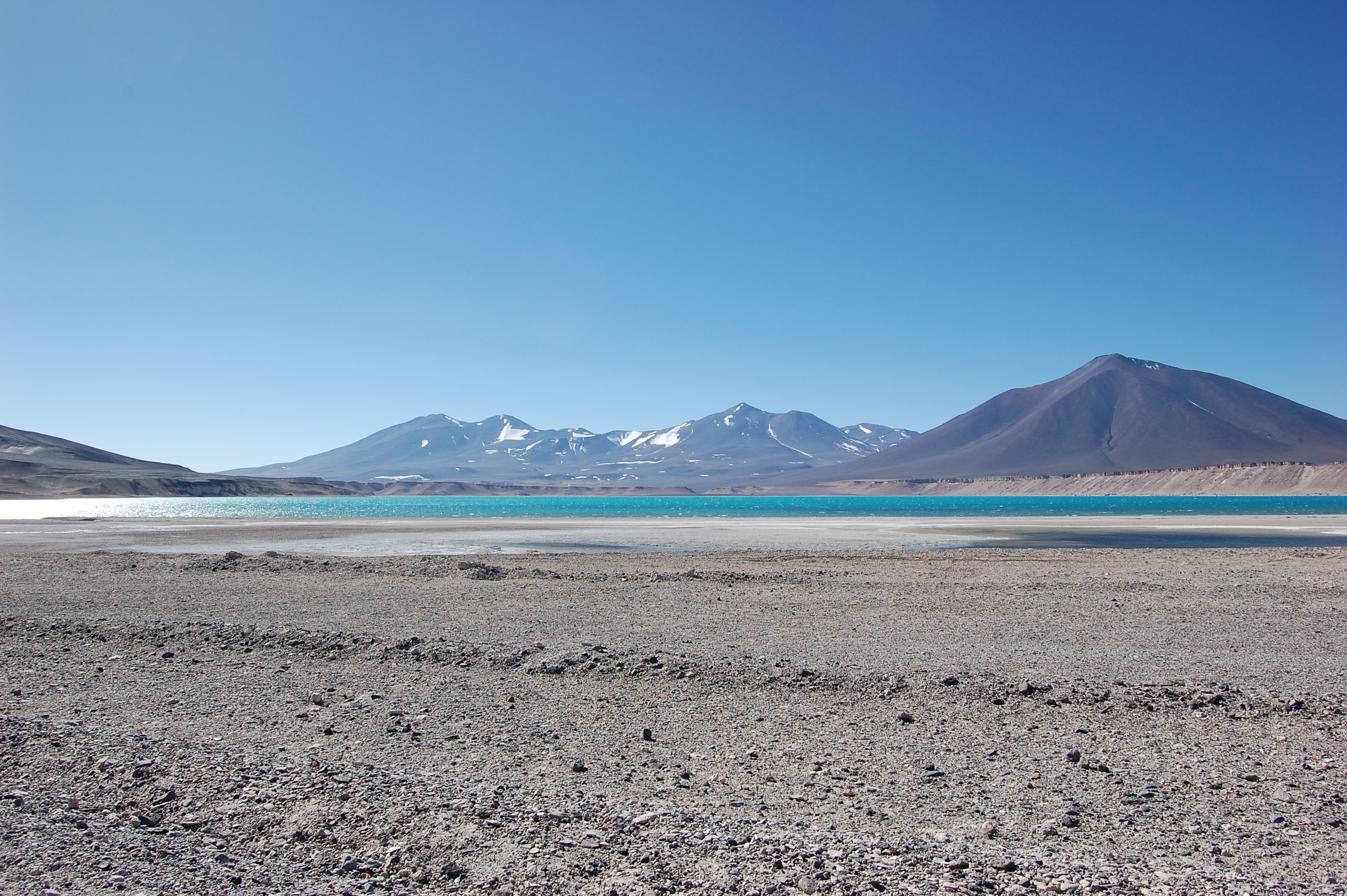 Laguna Verde in Atacama region, afternoon, 4300 m.a.s.l.